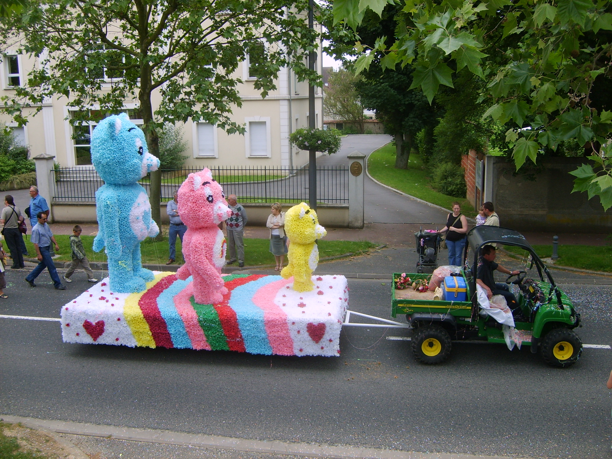 Bisounours in Festival of the Roses in Brie-Comte-Robert